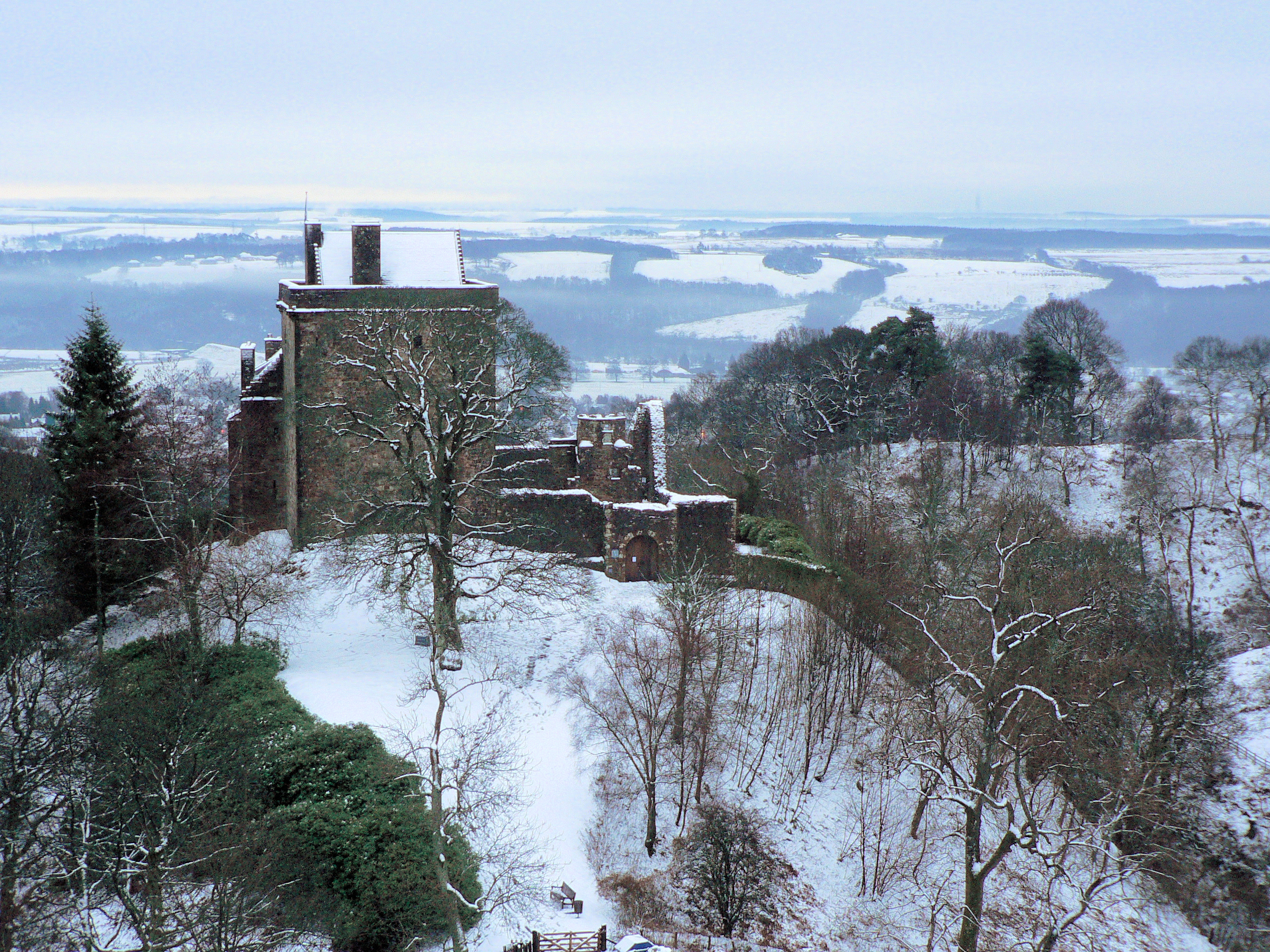 Castle Campbell in the snow